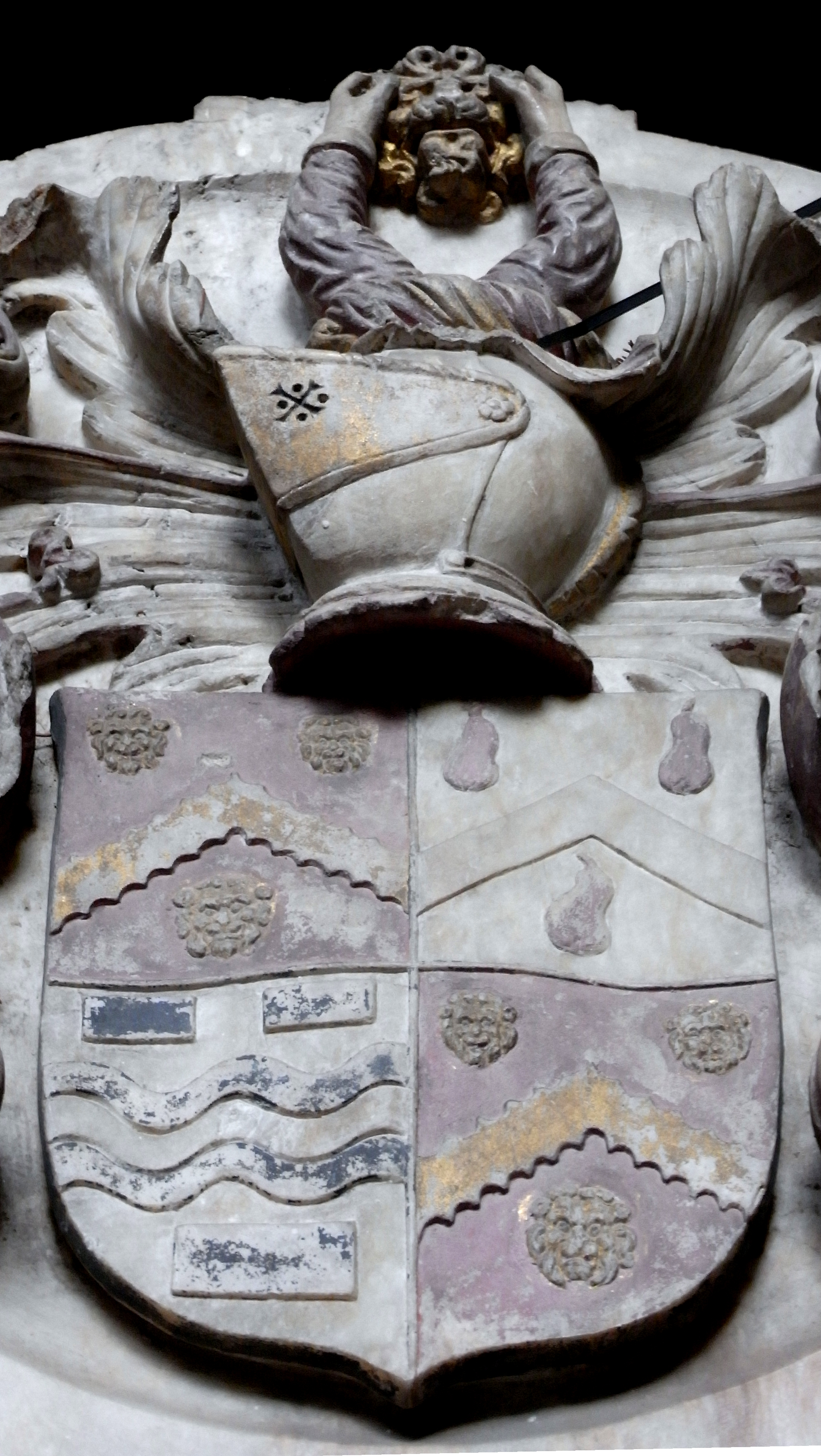 Heraldic achievement of Sir William Peryam (1534-1604) above his monument in Crediton Church, Devon